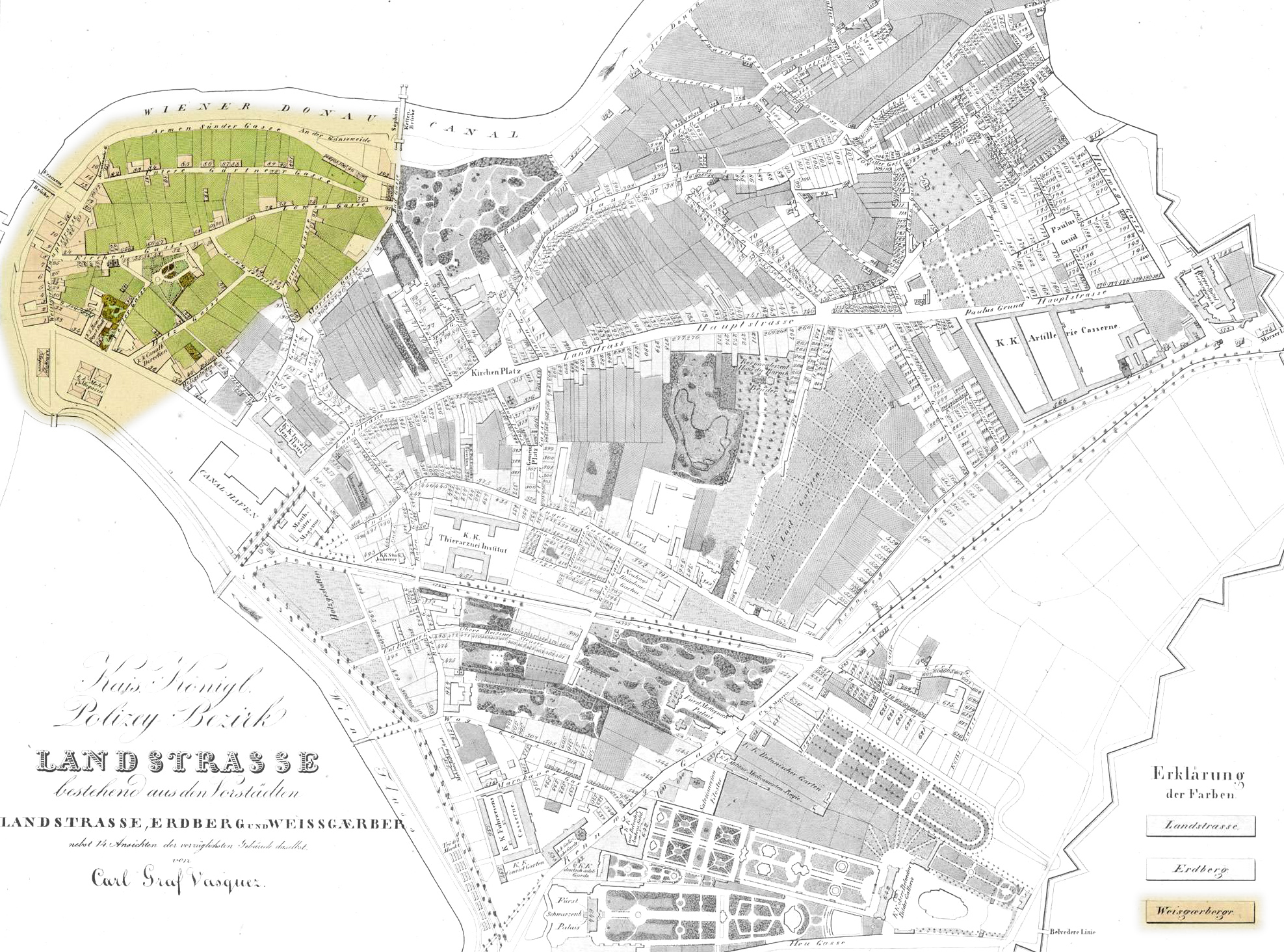 Map of Vienna / Weißgerber, approx. 1830